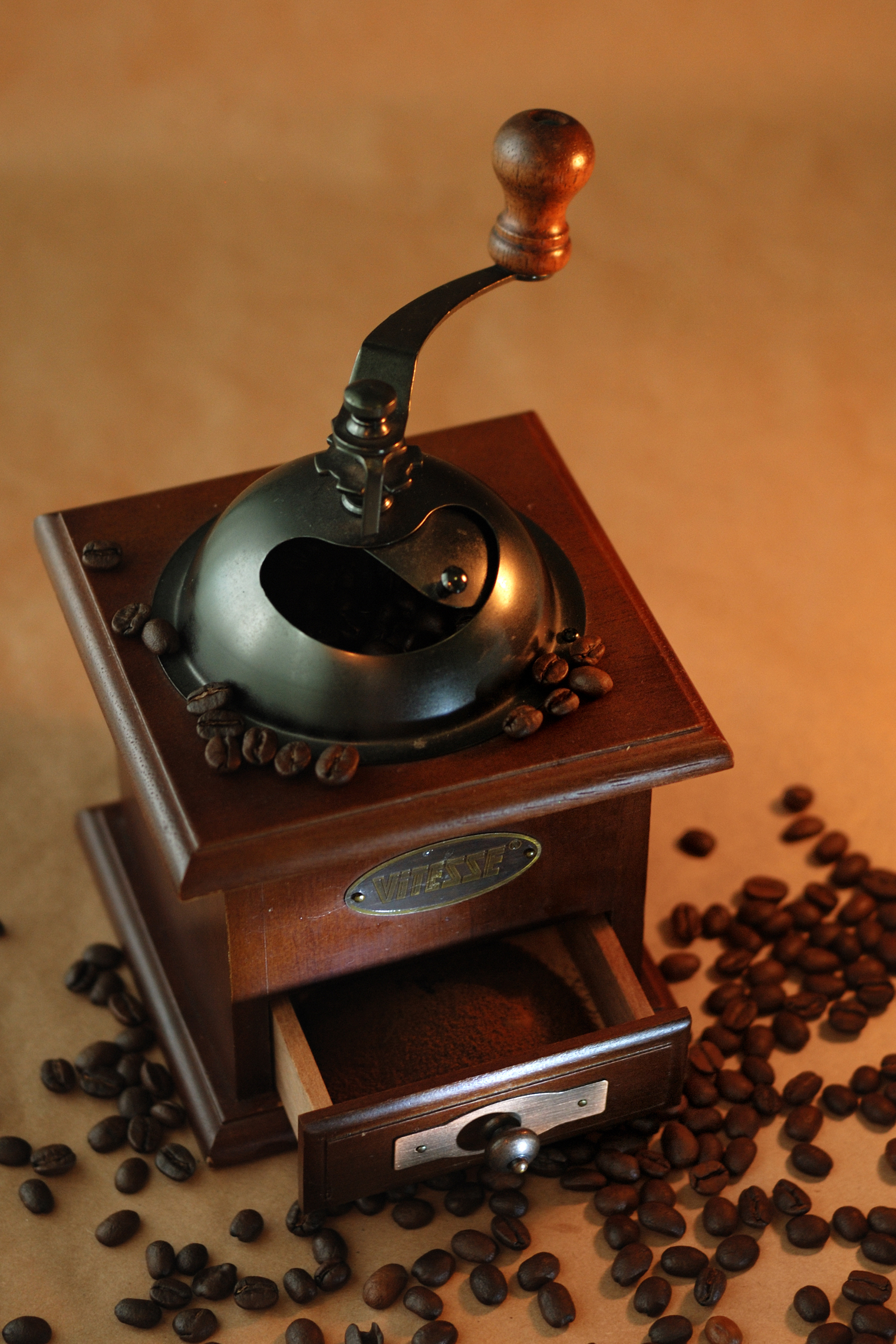 Old styled Coffee mill